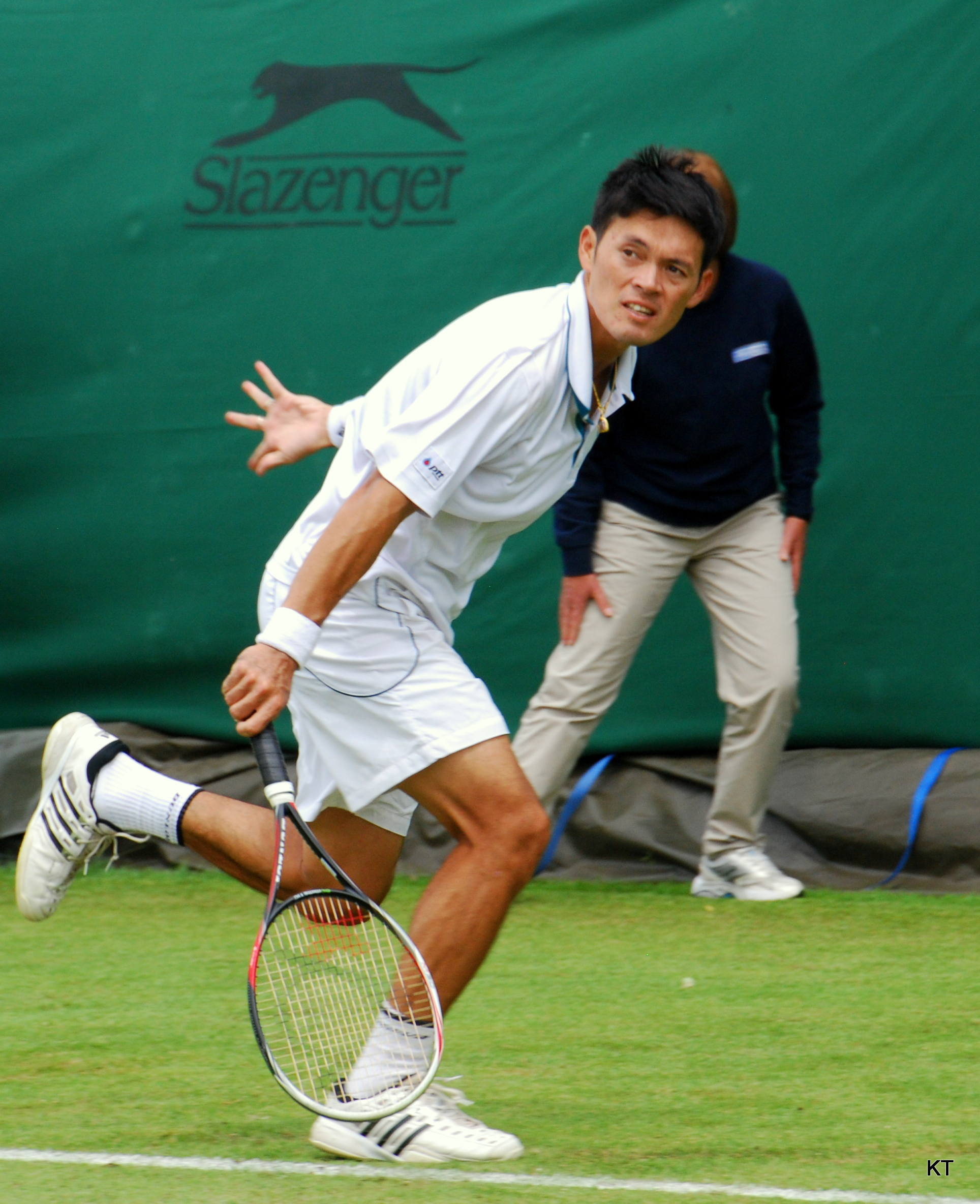 Day 1 of Wimbledon qualifying 2013.